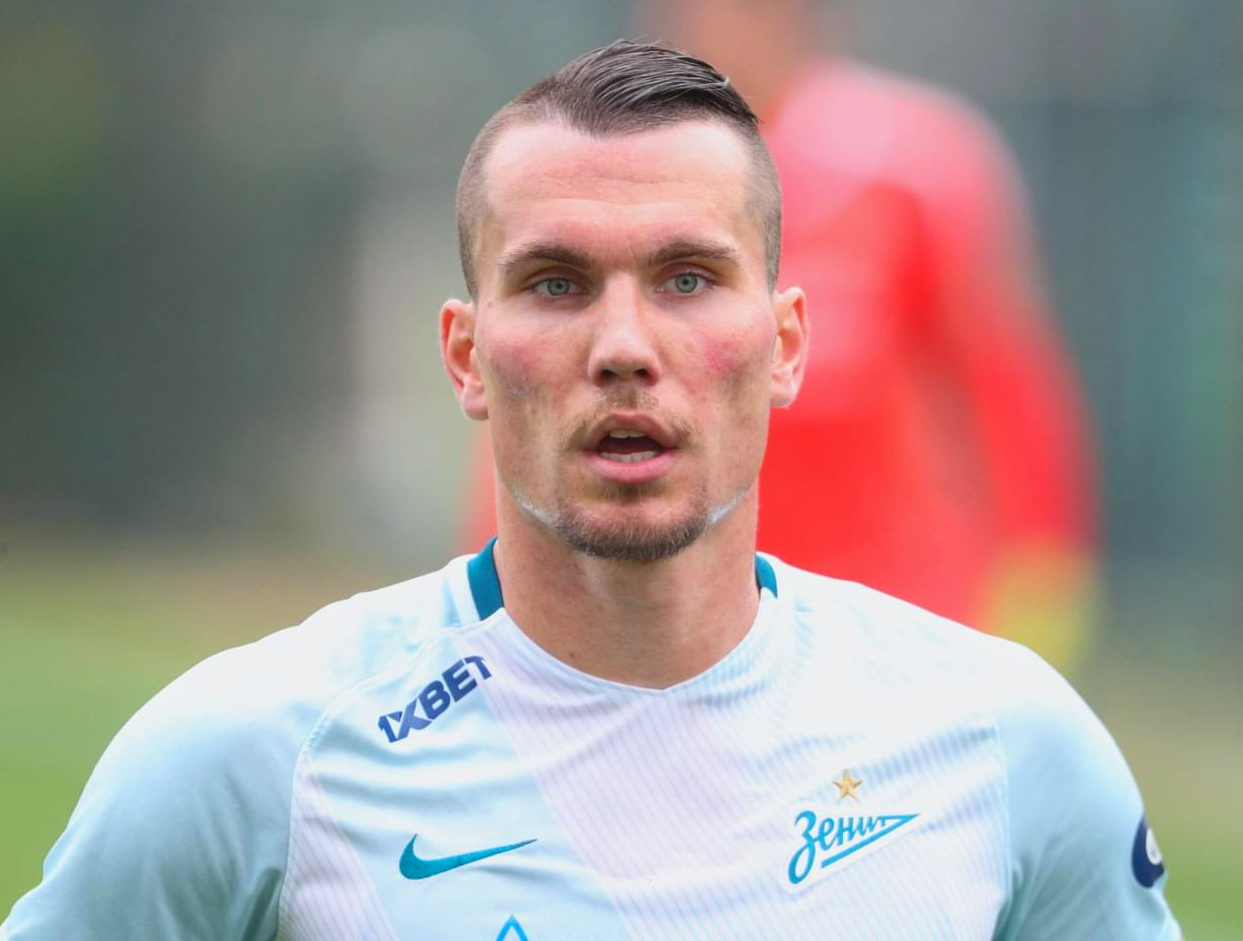 10.02.2018. Турция, Анталия, стадион «Мардан». Вторые зимние «Газпром» — тренировочные сборы: товарищеский матч «Зенит» — «Марибор».